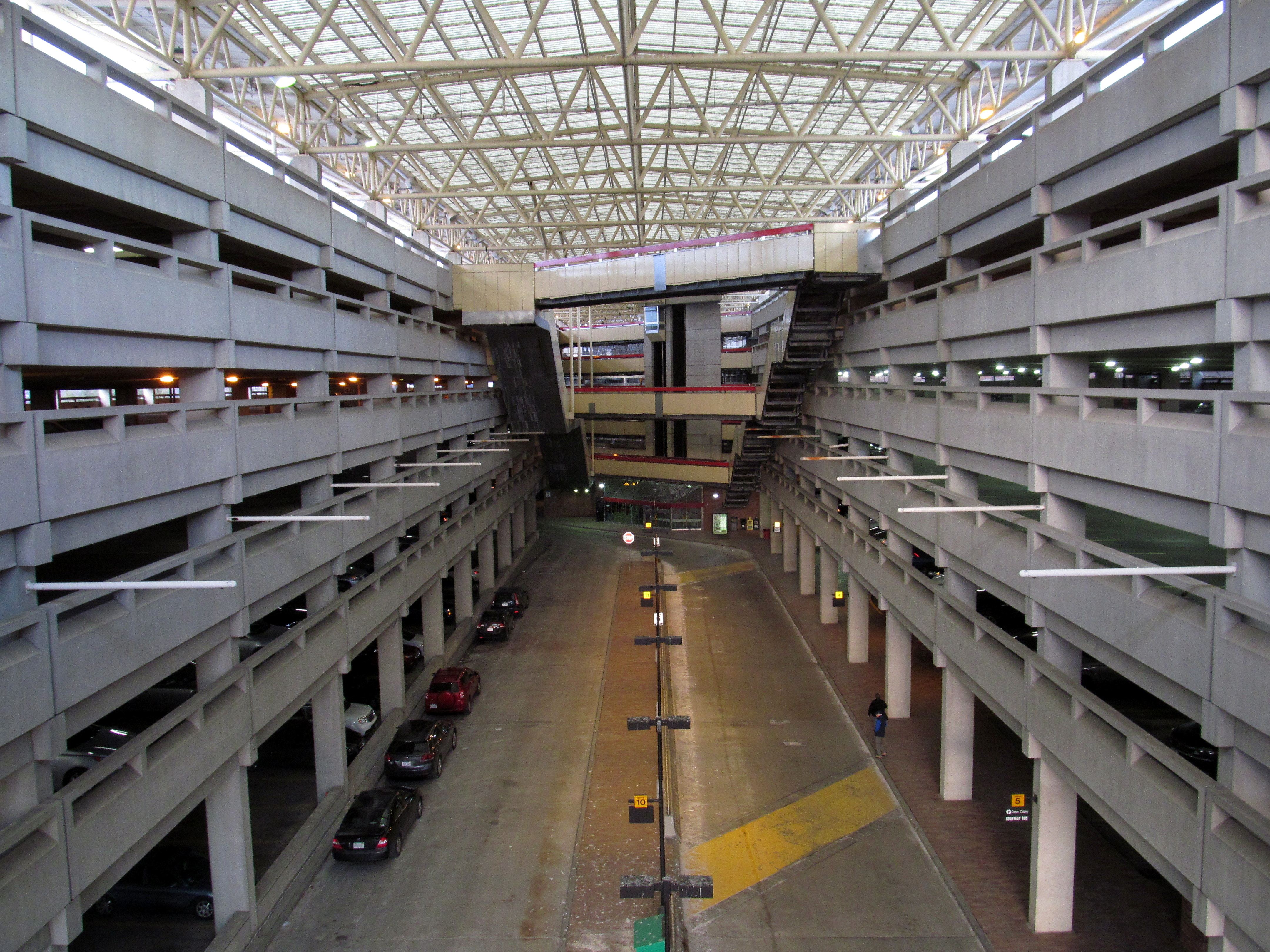 Parking garage and busway at Quincy Adams station in January 2016